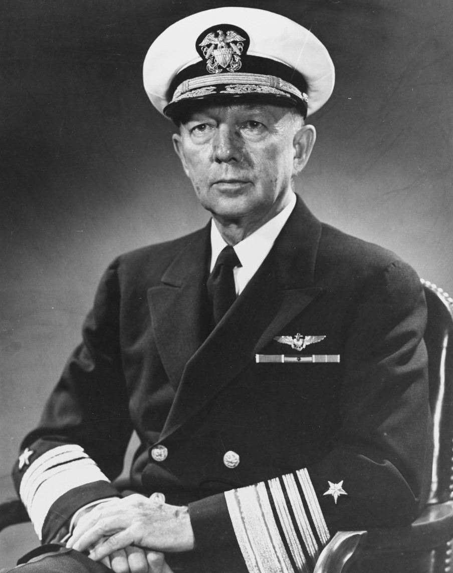 Admiral Donald B. Duncan, official U.S. Navy portrait photo, ineligible for copyright